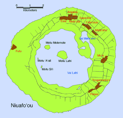 map of Niuafoʻou, Niua Islands, Northern Tonga, Pacific Ocean